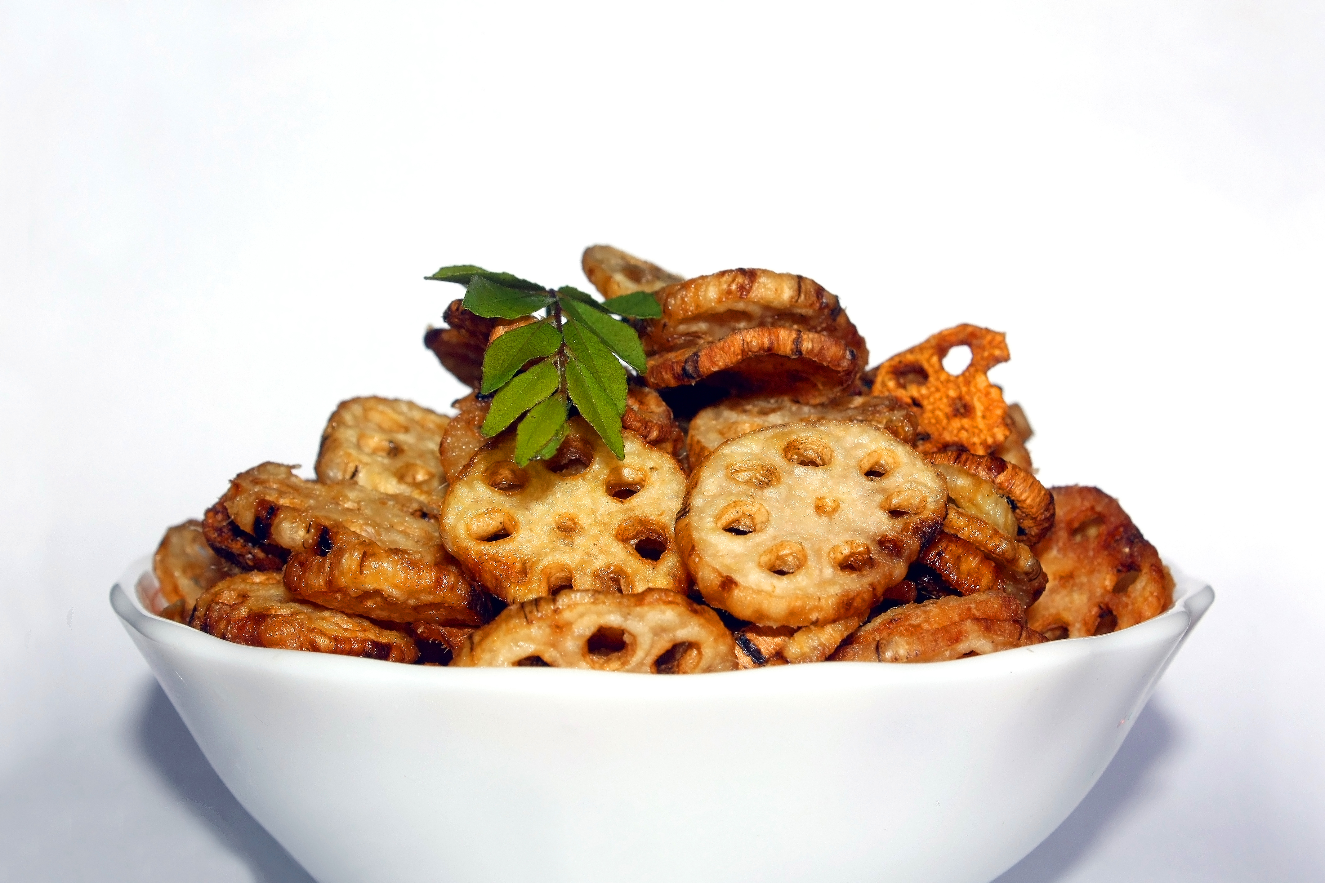 Lotus roots curry